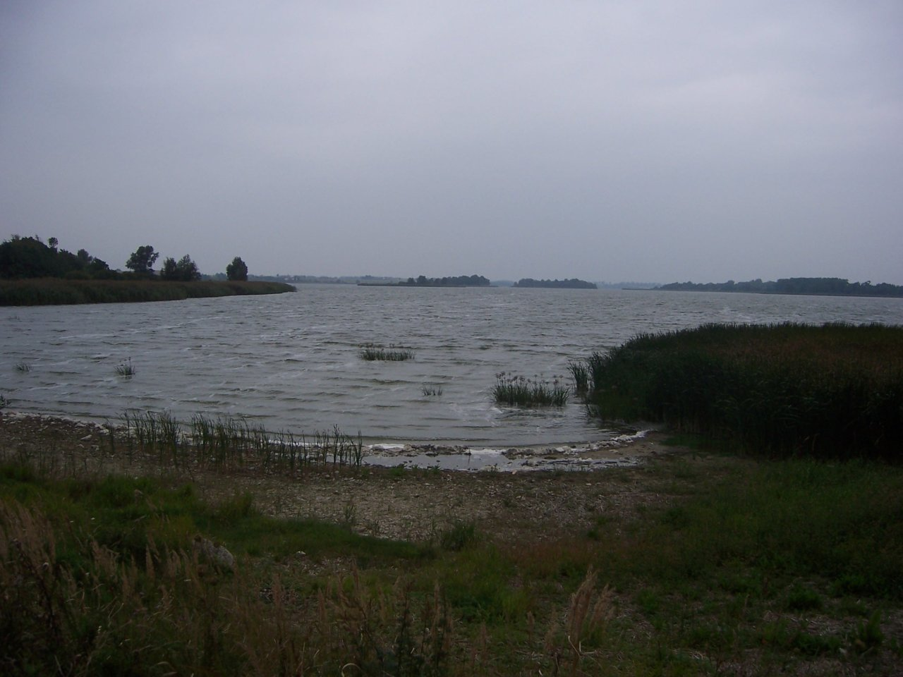 lake dzierzgon poland